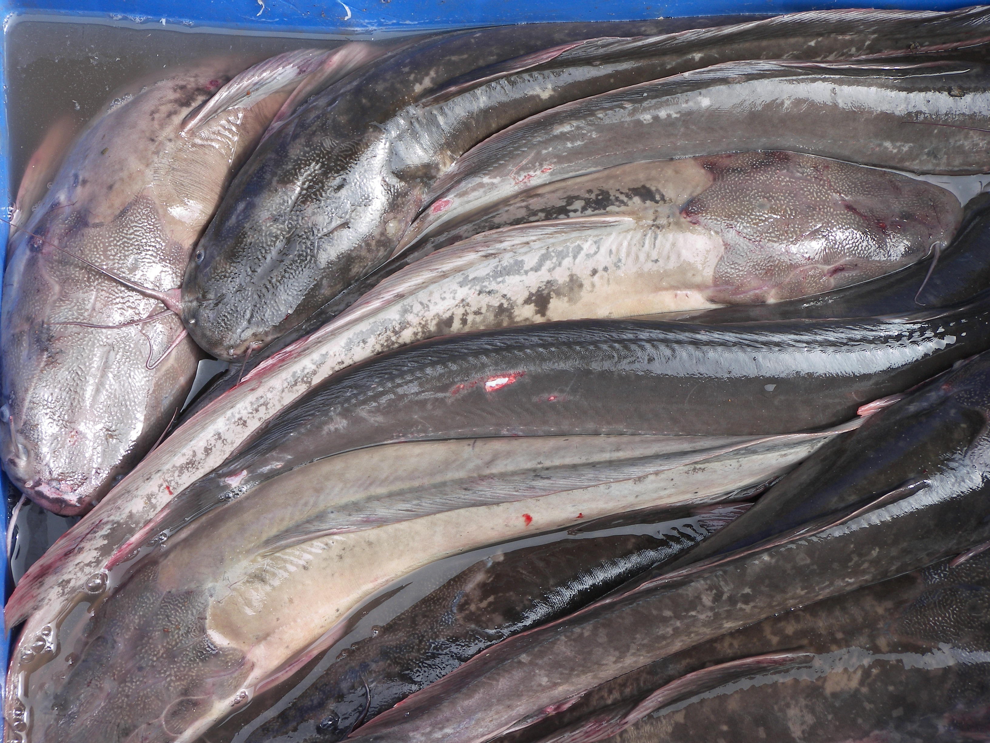 Rajesh Dangi, Bangalore, "Mangur fish in HAL Market"